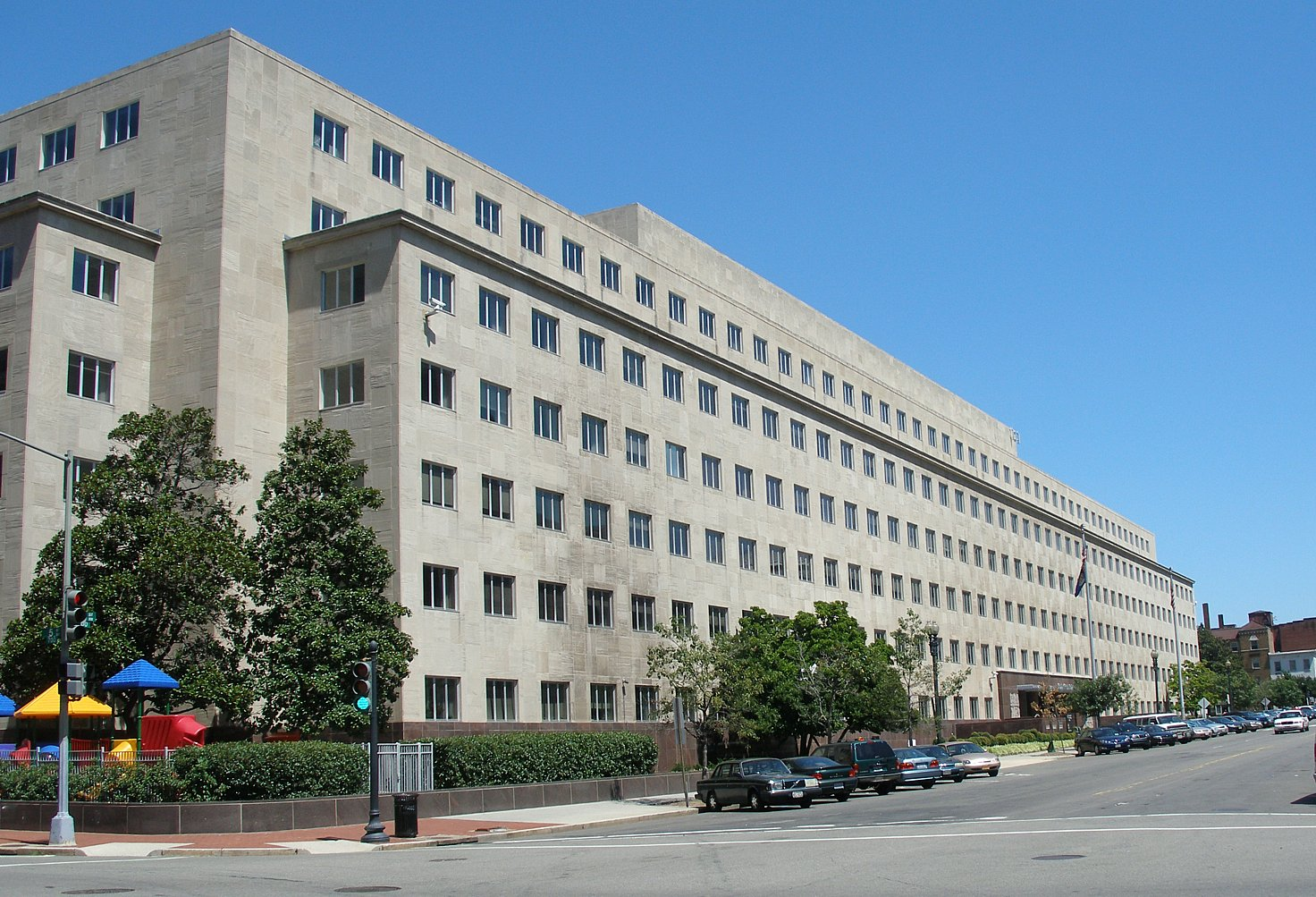 The headquarters of the Government Accountability Office in Washington. It is adjacent to the National Building Museum (which is just beyond the right edge of this image). The colorful structure at lower left is apparently a children's playground attached to an on-site day care center.